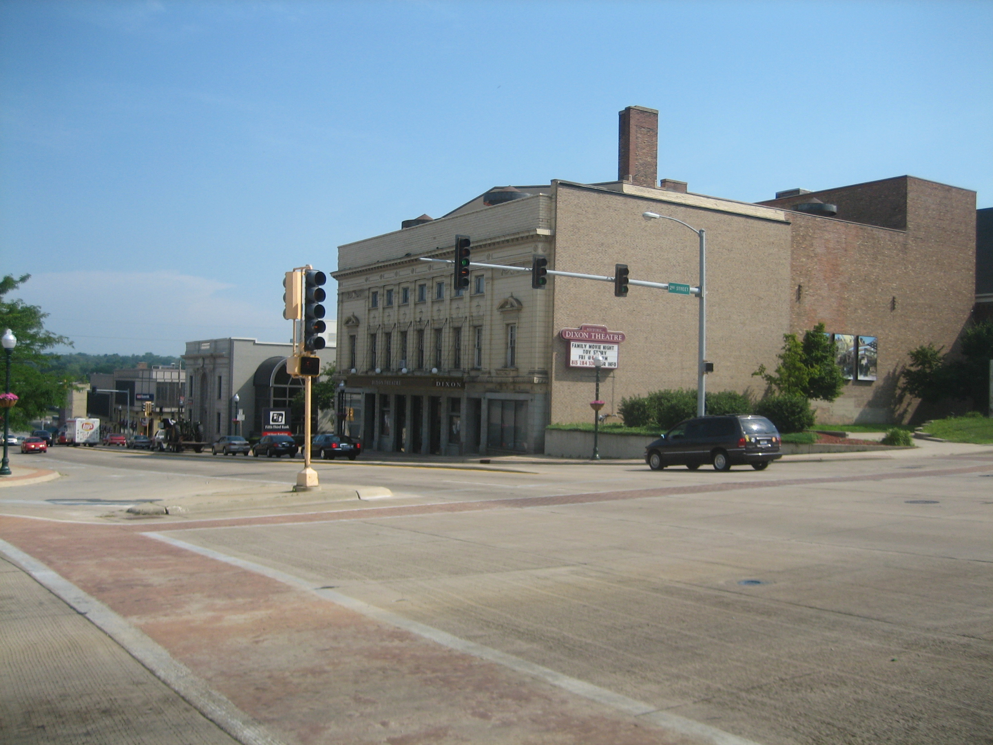 Dixon, Illinois, United States. Dixon Theatre